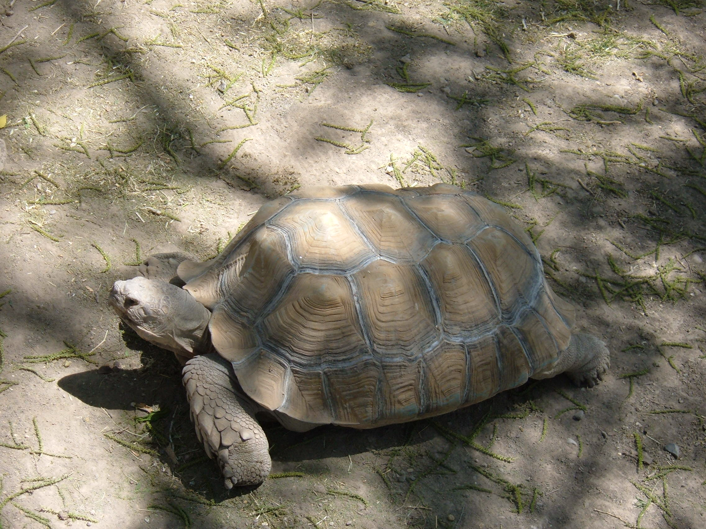 Buford is an African Spurred Tortoise, about 2 feet long. Alameda Park Zoo is at the corner of White Sands Blvd and 10th St in Alamogordo, New Mexico.